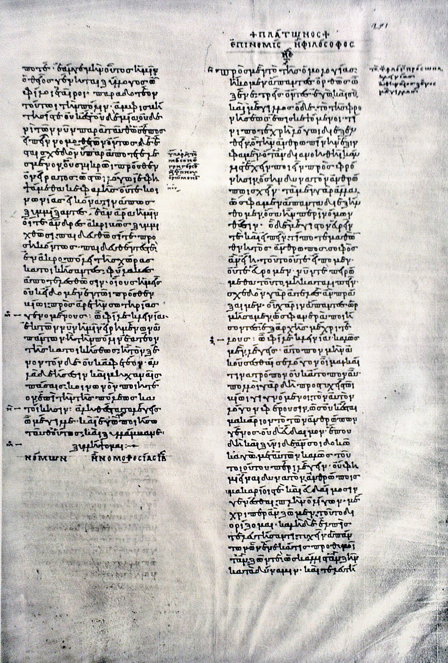 Page of the Codex Parisinus graecus 1807. Dialogue Epinomis.